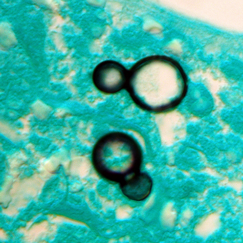 James Scott, personal photo, GMS stained biopsy of section from human leg lesion photographed in DIC microscopy, showing broad-based budding characteristic of Blastomyces dermatitidis (identity of the fungus in this case was verified by culture)